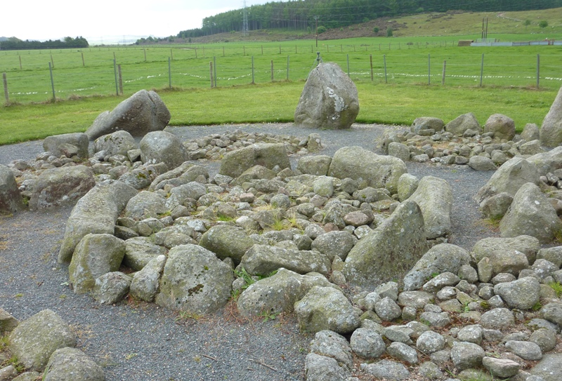 Cullerlie Stone Circle, Aberdeenshire, Scotland. Central cairn.